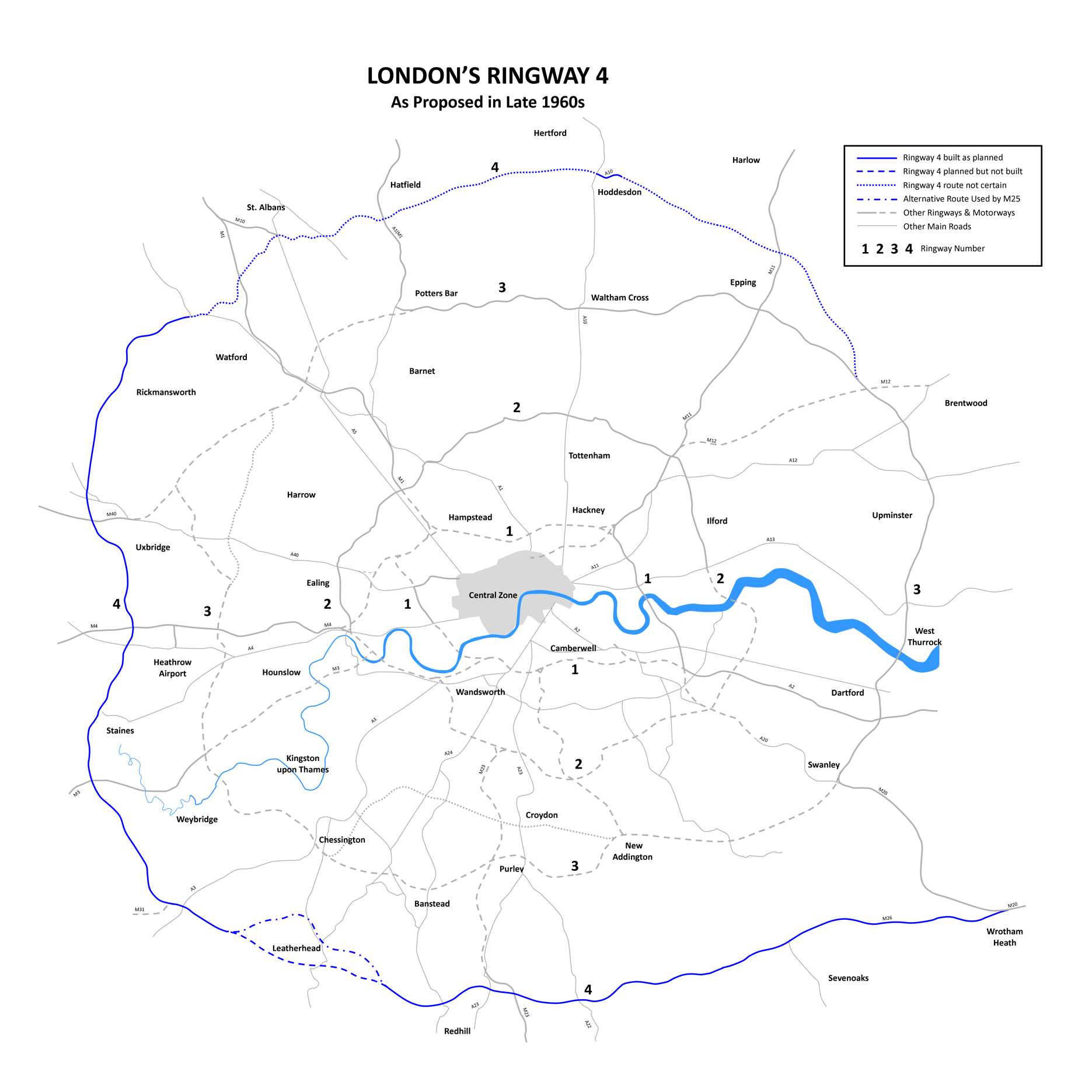 London Ringway 4 Plan from the late 1960s showing roads planned for Ringway 4, indicating those sections of road that were built (becoming parts of the M25 motorway and M26 motorway) and those sections not built. --DavidCane 15:32, 4 February 2007 (UTC)